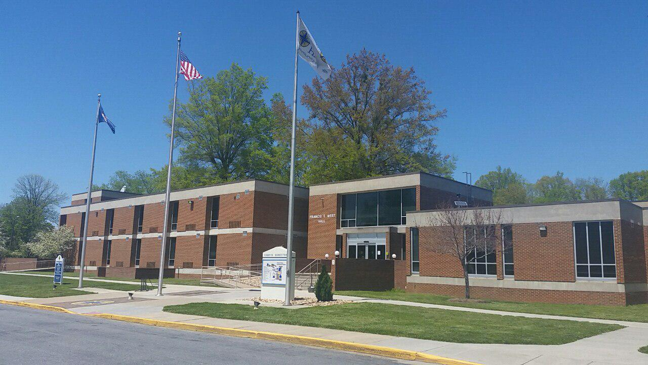 Patrick Henry Community College's Francis T. West Hall, pictured in April 2018.